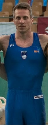 Aljaž Pegan at 43. Šalamunov memorial in Maribor